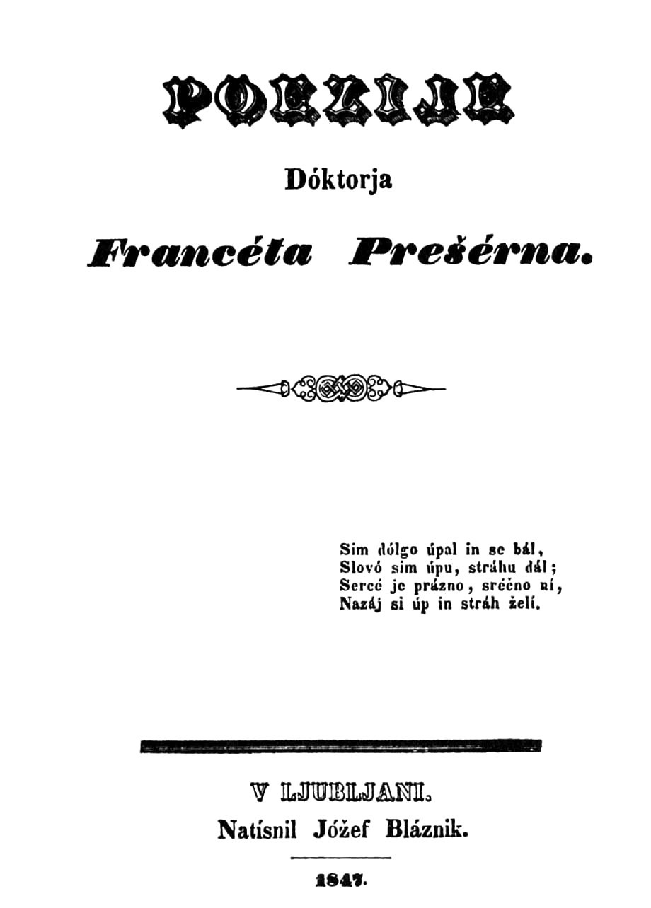 Book cover of Poezije (1847), written by France Prešeren.